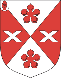 Arms of Baronet Agnew of Great Stanhope Street, London Blazon: Per saltire Argent and Gules in pale two fraises and in fess two saltires couped all counterchanged. An Ulster Baronet's badge for difference.